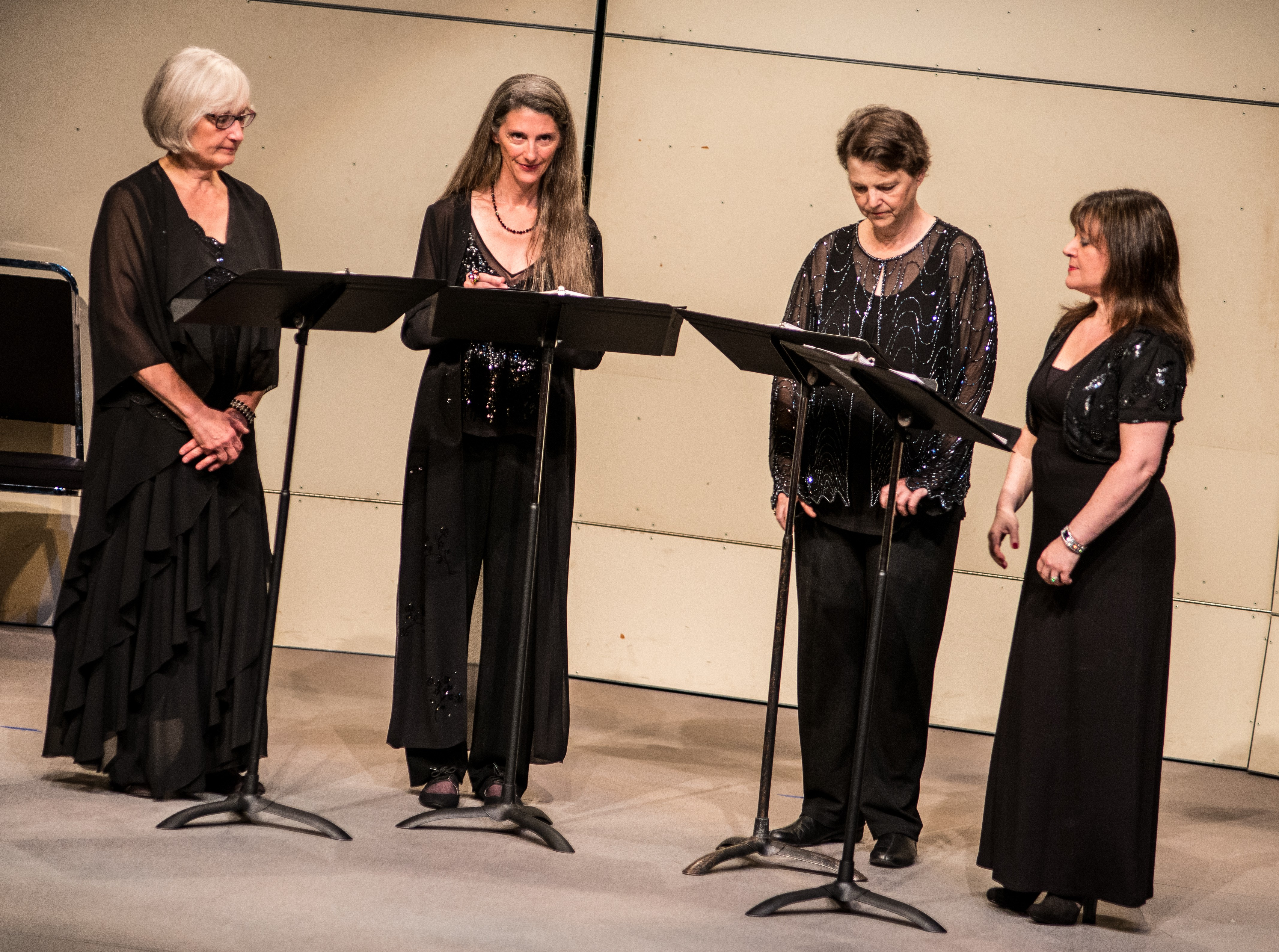 The Performing Arts Series presented an iconic vocal group, Anonymous 4, in its only Virginia performance this season. To mark its 25th year together, Anonymous 4 has created a unique concert program, “Anthology 25.”